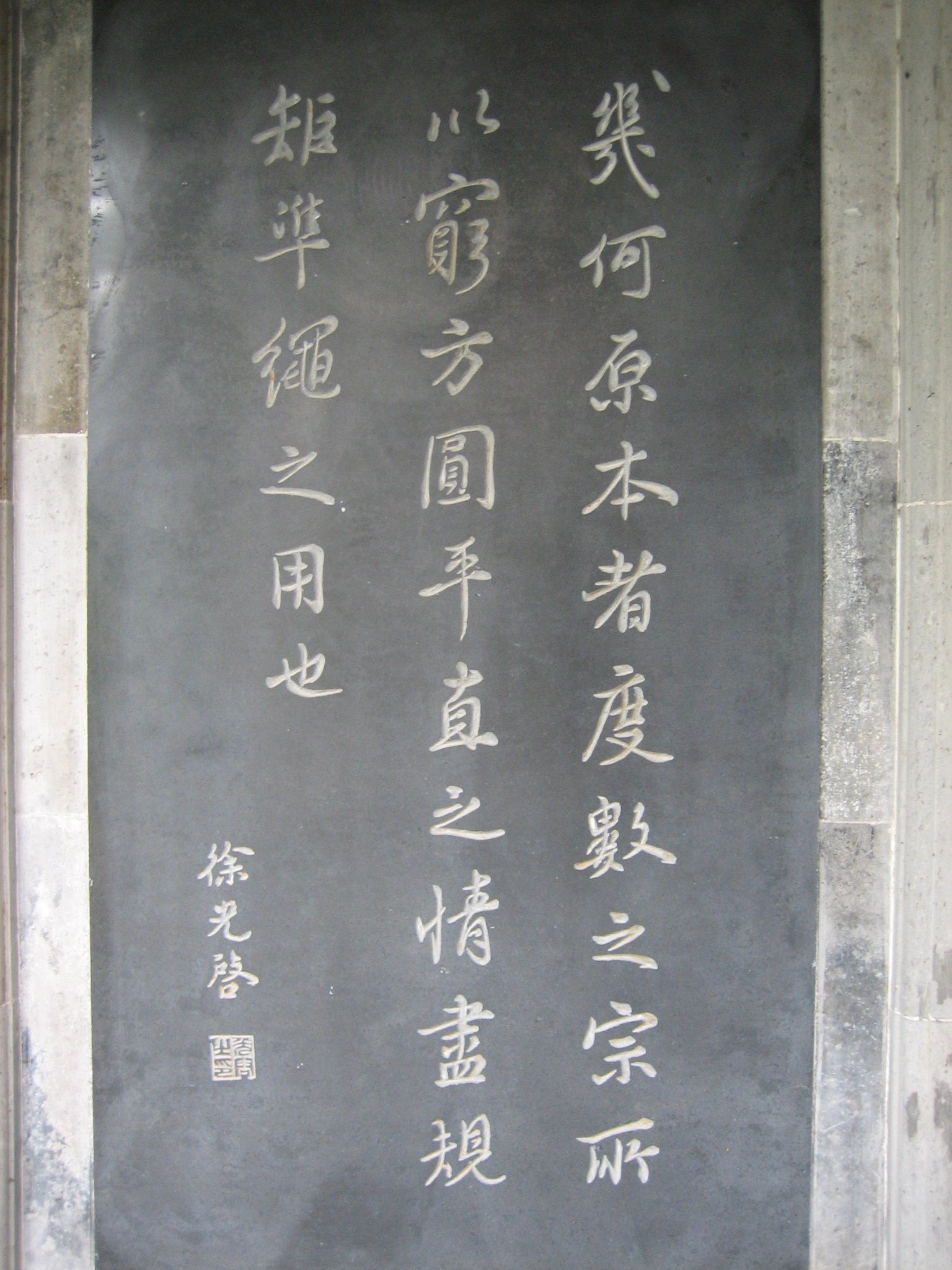 Preface of Euclid's Elements by Xu Guangqi, photoed by User:Mountain, at Guangqi Park, Shanghai. The content of this Preface is written by Guangqi Xu who died at 1633, and the calligraphic work itself was also written by Guangqi Xu. Guangqi Xu was the first Chinese translator of Euclid's Elements with the help of Matteo Ricci.